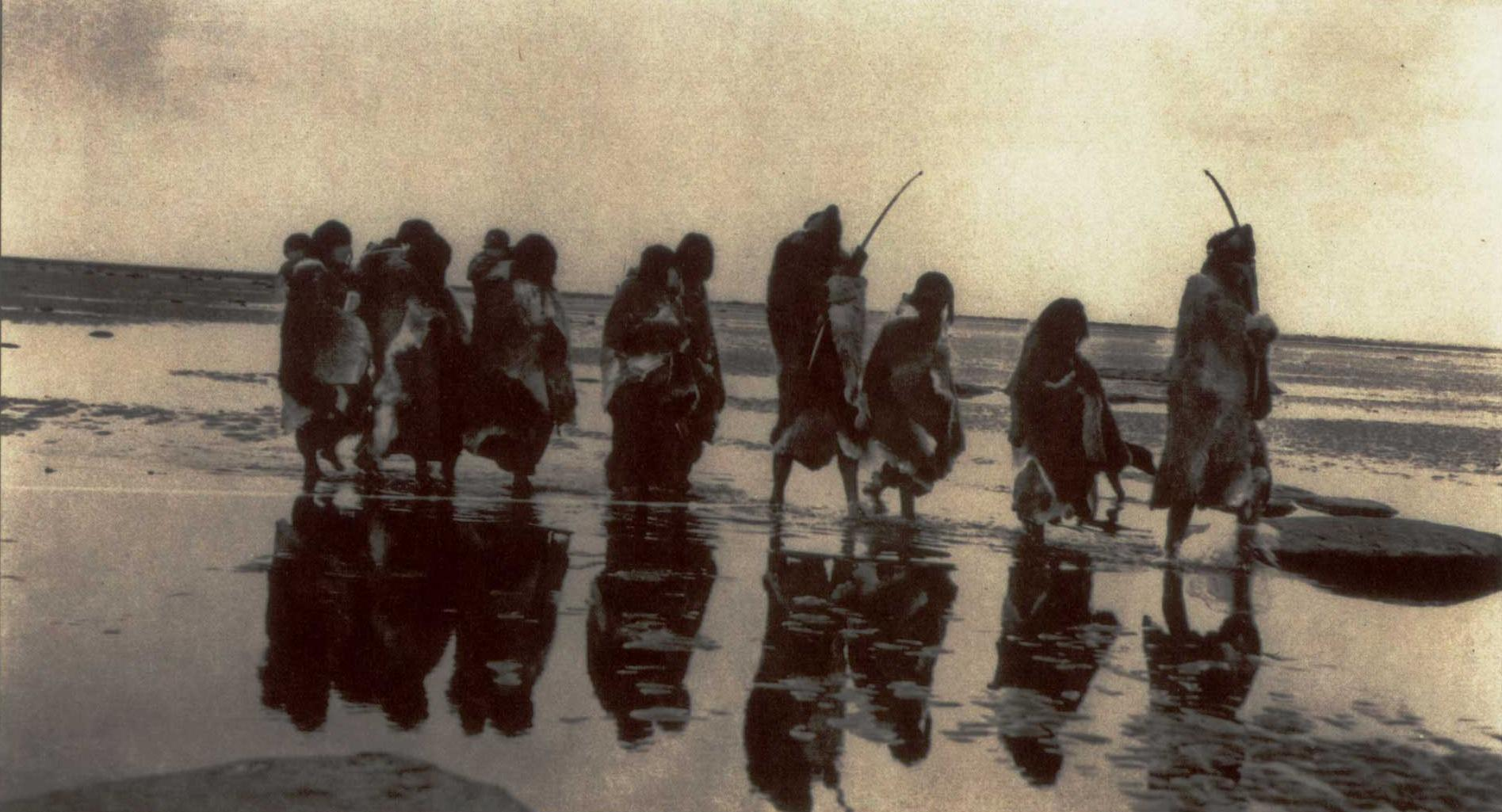 The Selk'nam, also known as the Ona, lived in the Tierra del Fuego islands, in southern Chile and Argentina. They were one of the last aboriginal groups in South America to be reached by Westerners, in the late 19th century, when the Chilean and Argentine governments began efforts to explore and integrate Tierra del Fuego (literally, the "land of fire" based on early European explorers observing Selk'nam smoke from their bonfires).